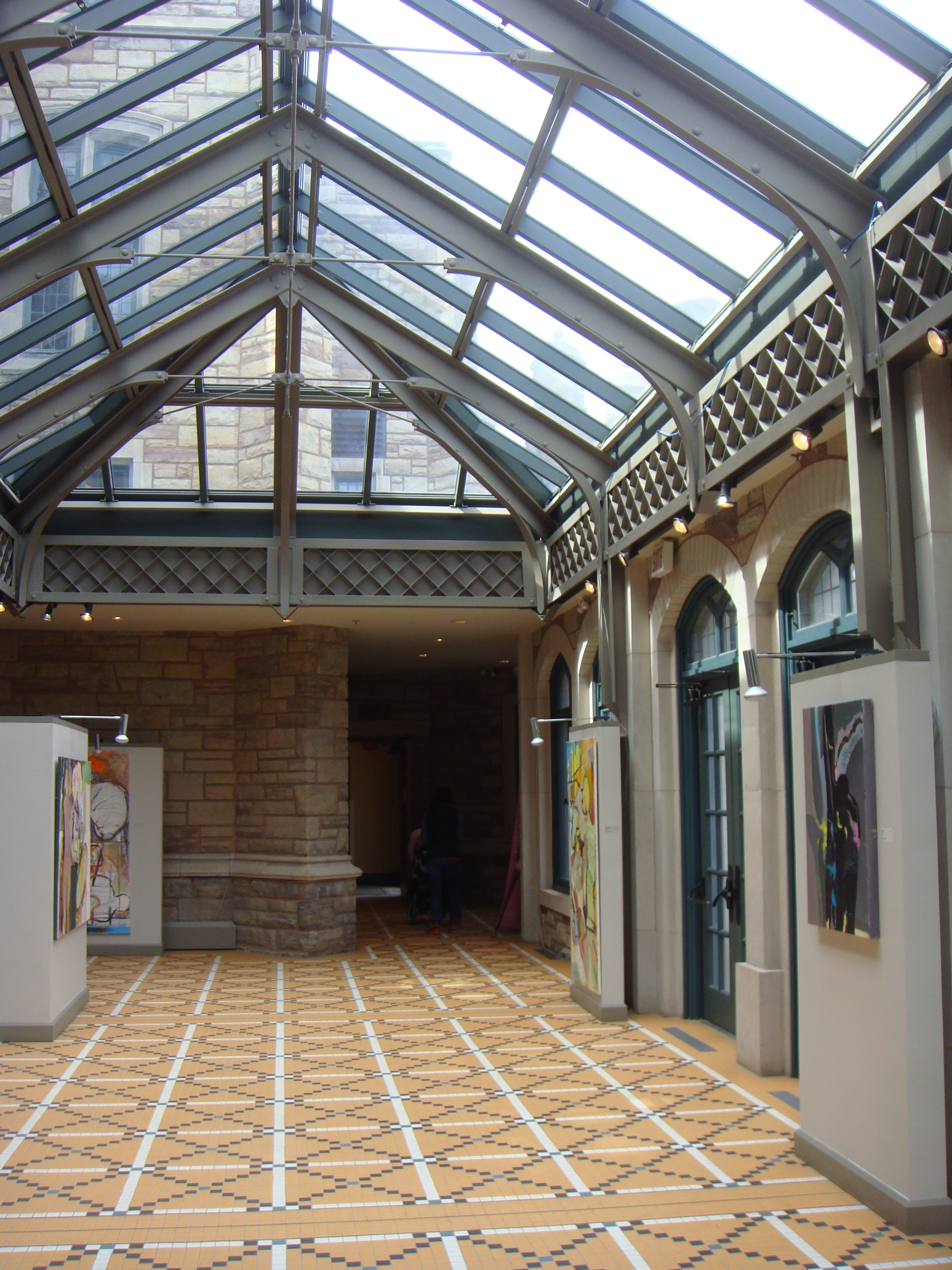 Victoria Hall and greenhouse in May 2015